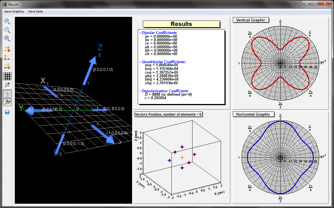 Example of HRS Computing output